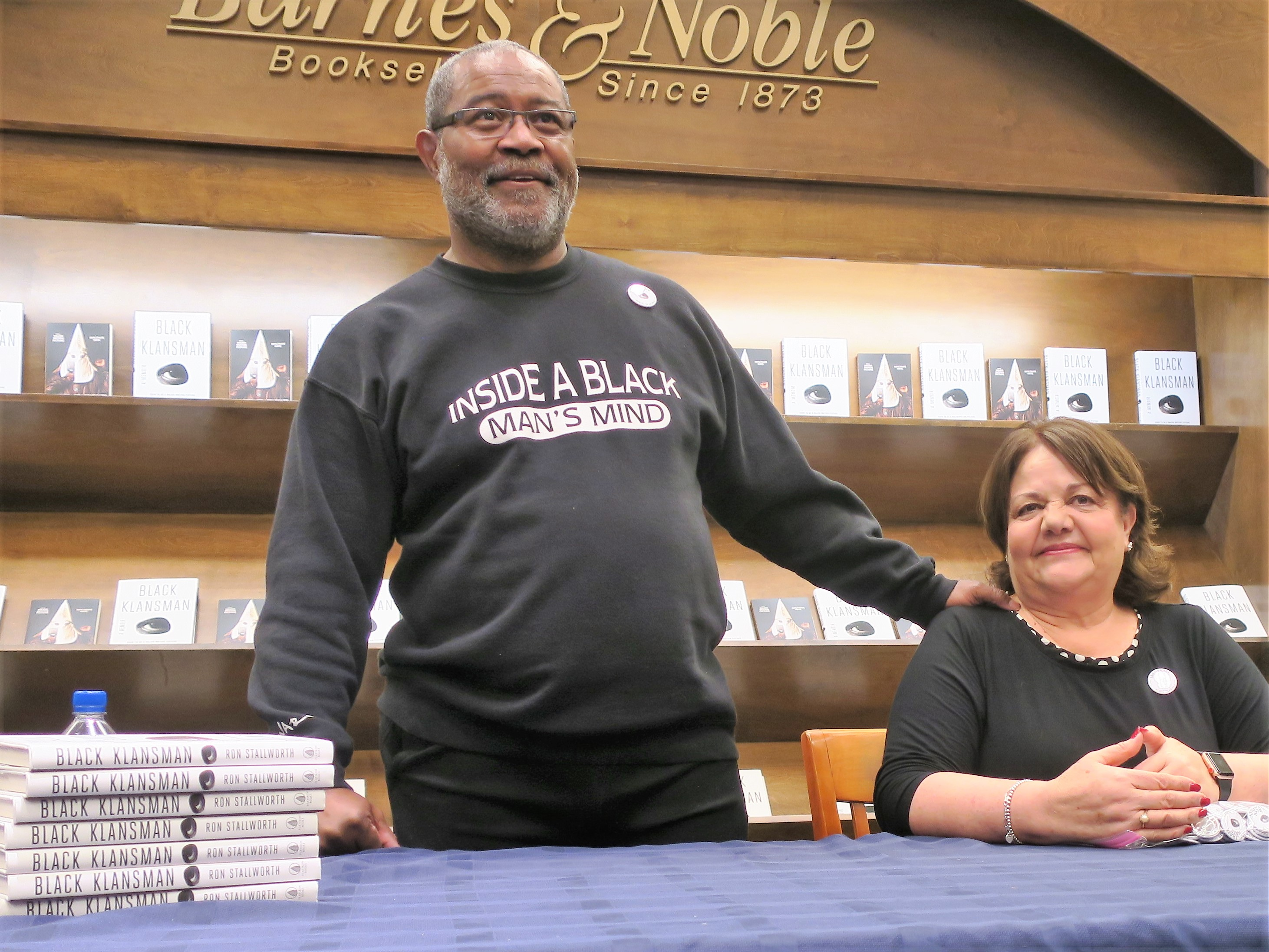 El Paso-Ron Stallworth-Black Klansman 1